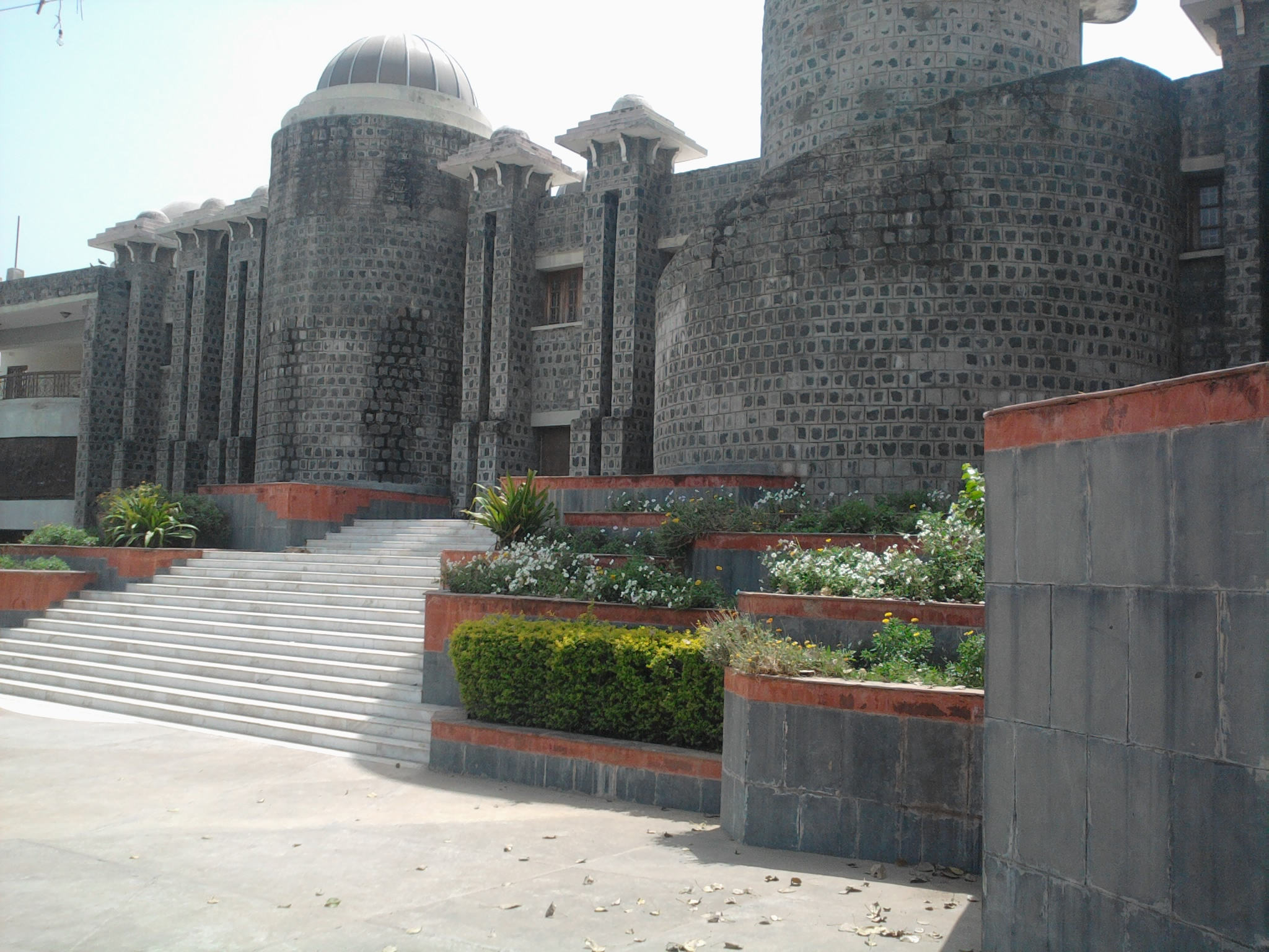 Govt. VVIP Guest House